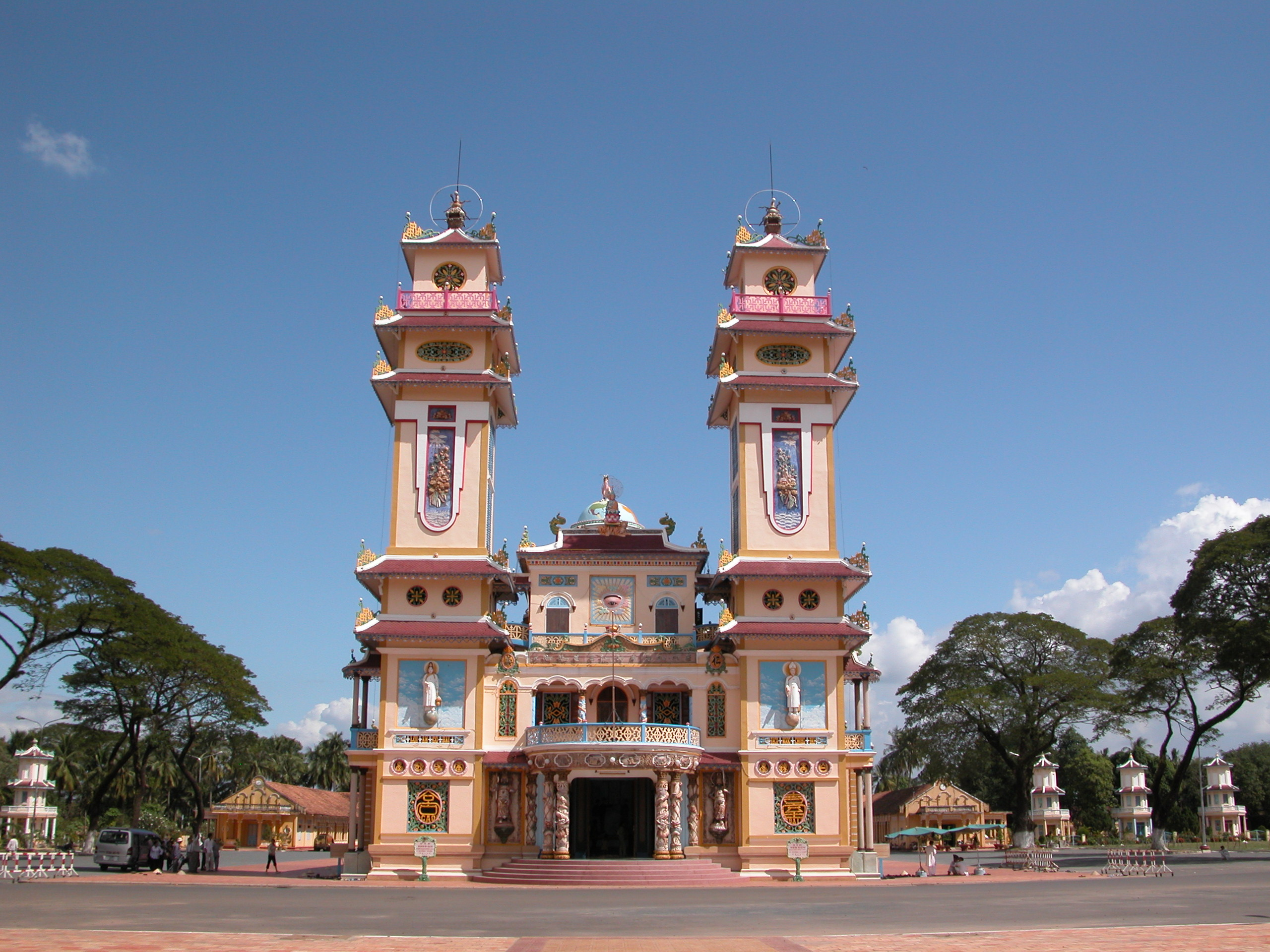 Facade of the Cao Dai Holy See in Tây Ninh province, Vietnam.